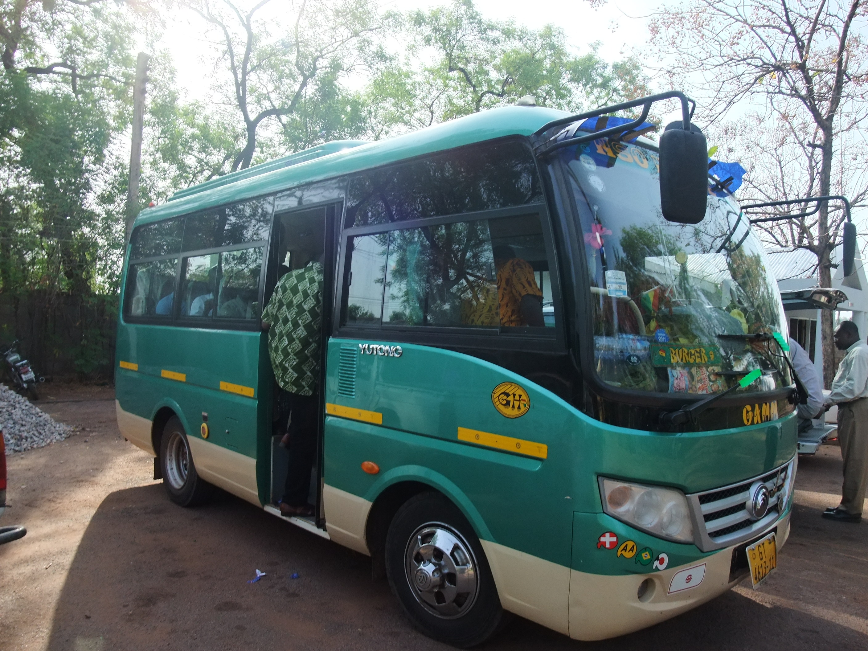 Bus Rapid Transit in Tamale, Northern Region.